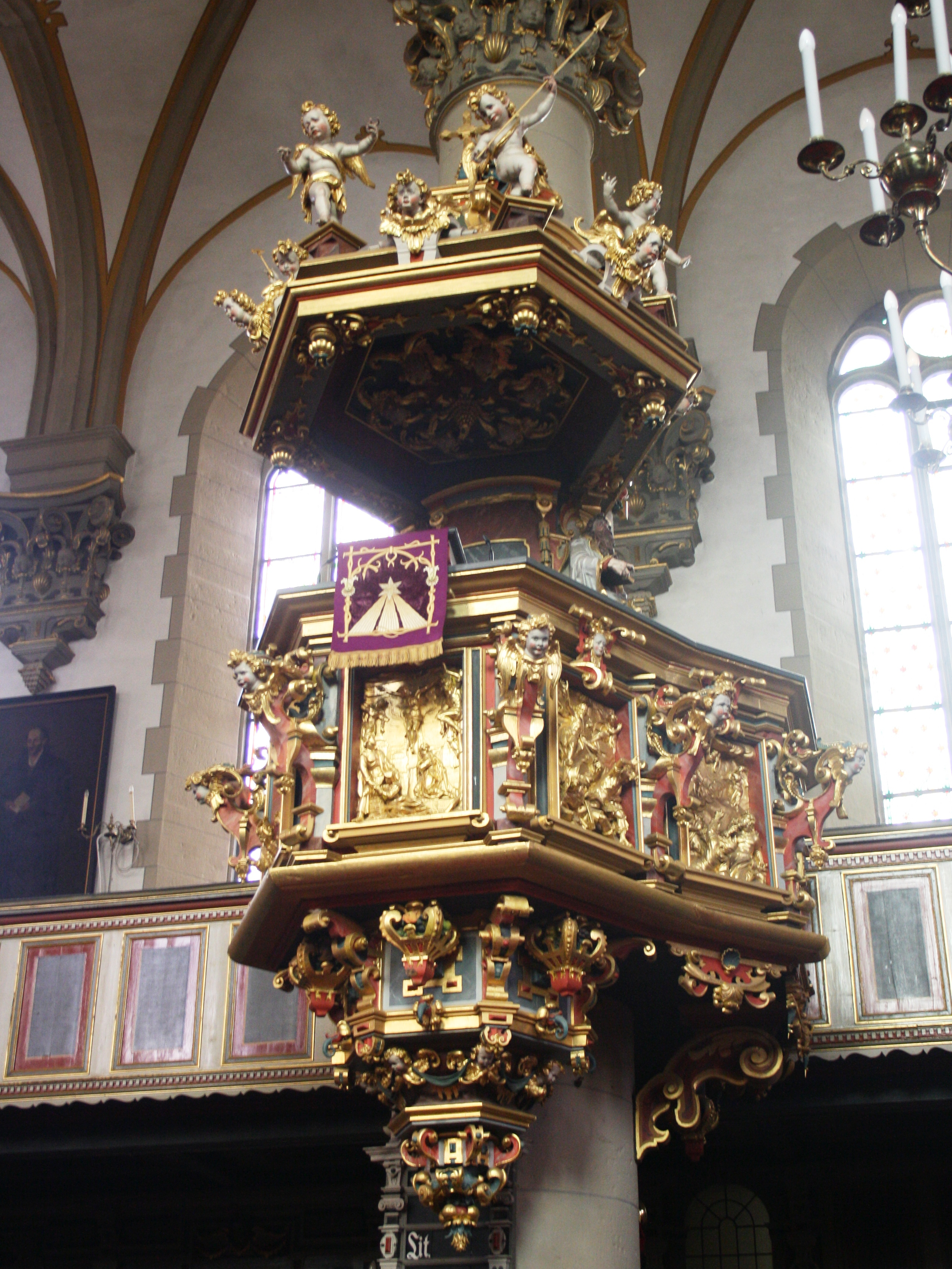 Townchurch in Bückeburg, Germany. Pulpit.